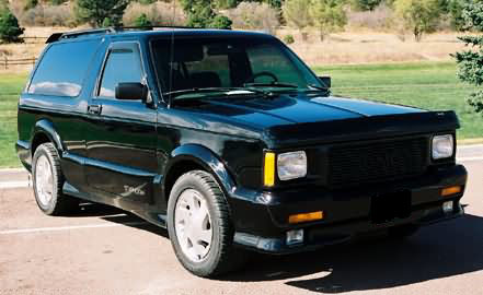 This picture was taken in a Colorado parking lot by me. It is my friend's Typhoon. Edited with Photoshop.